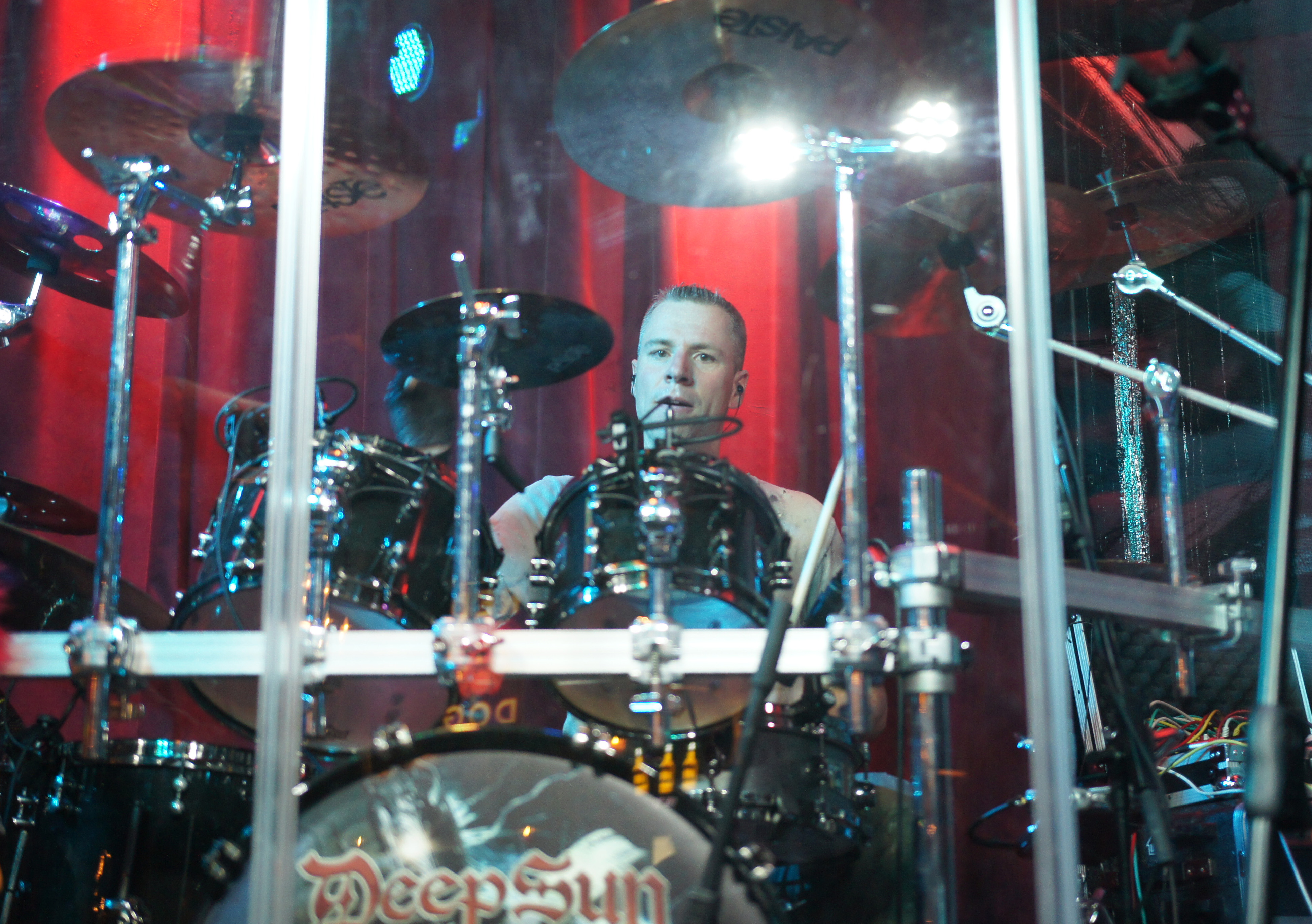 Deep Sun Tobias Brutschi, Drums live at ACP-Club, 2019